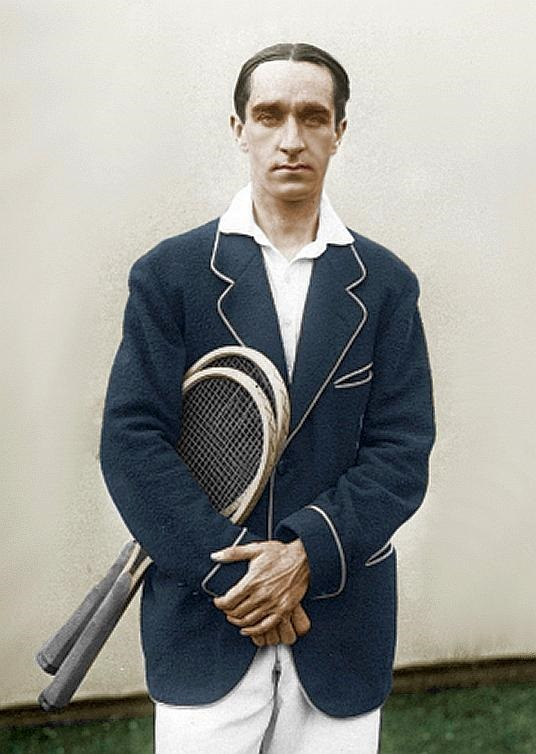 Max Decugis standing near tent. Cropped and colored